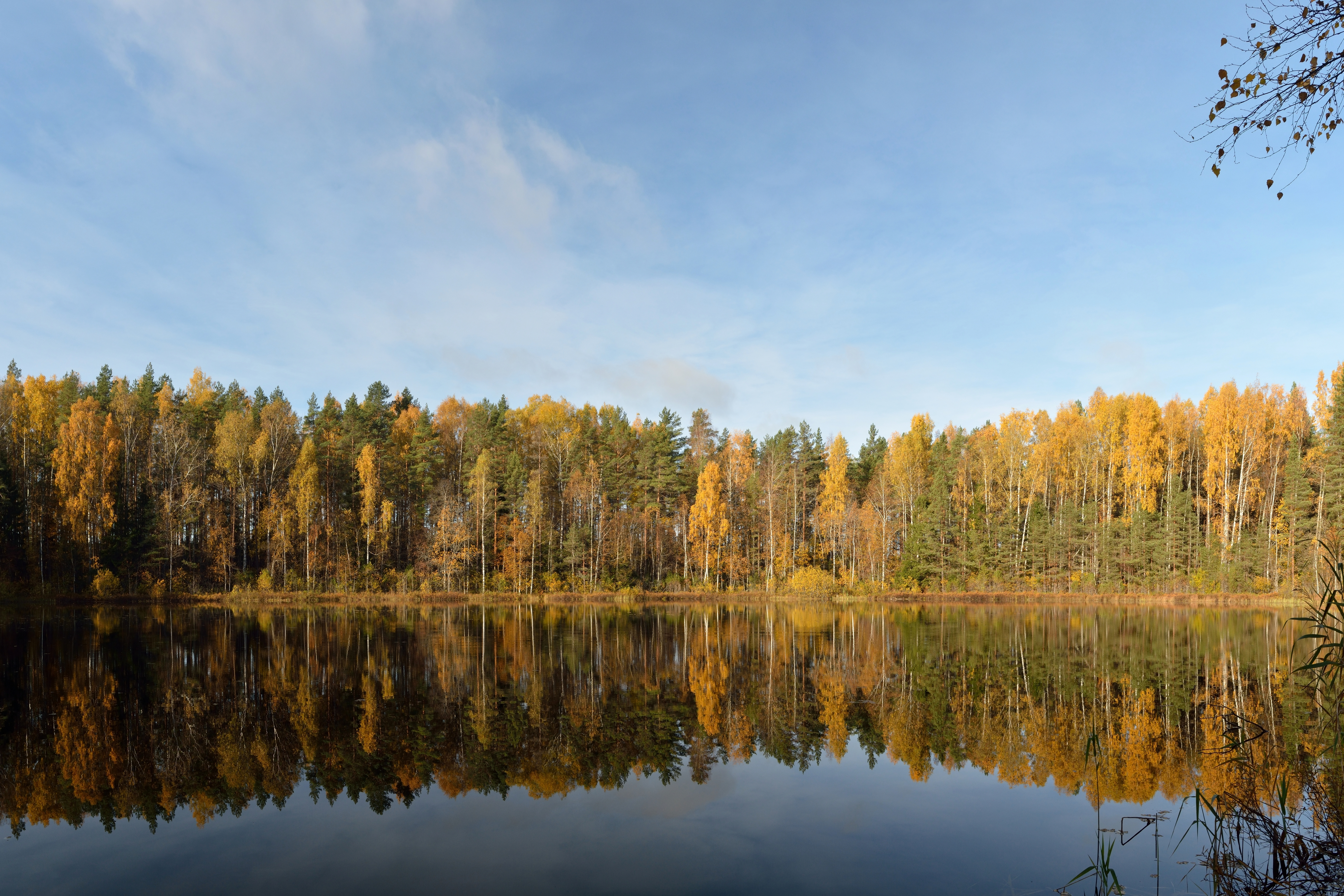 Lake Haugjärv, Kurtna Landscape Reserve. Surface area 1.7 ha, deepness as far as 4.5 m.